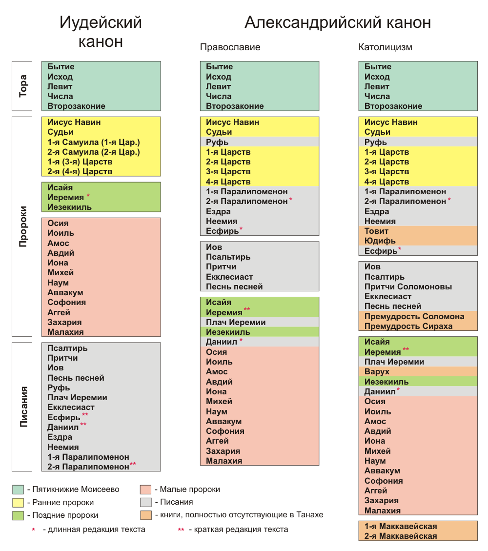 Old Testament Canons: Tanakh, Alexandrian, Vulgate.